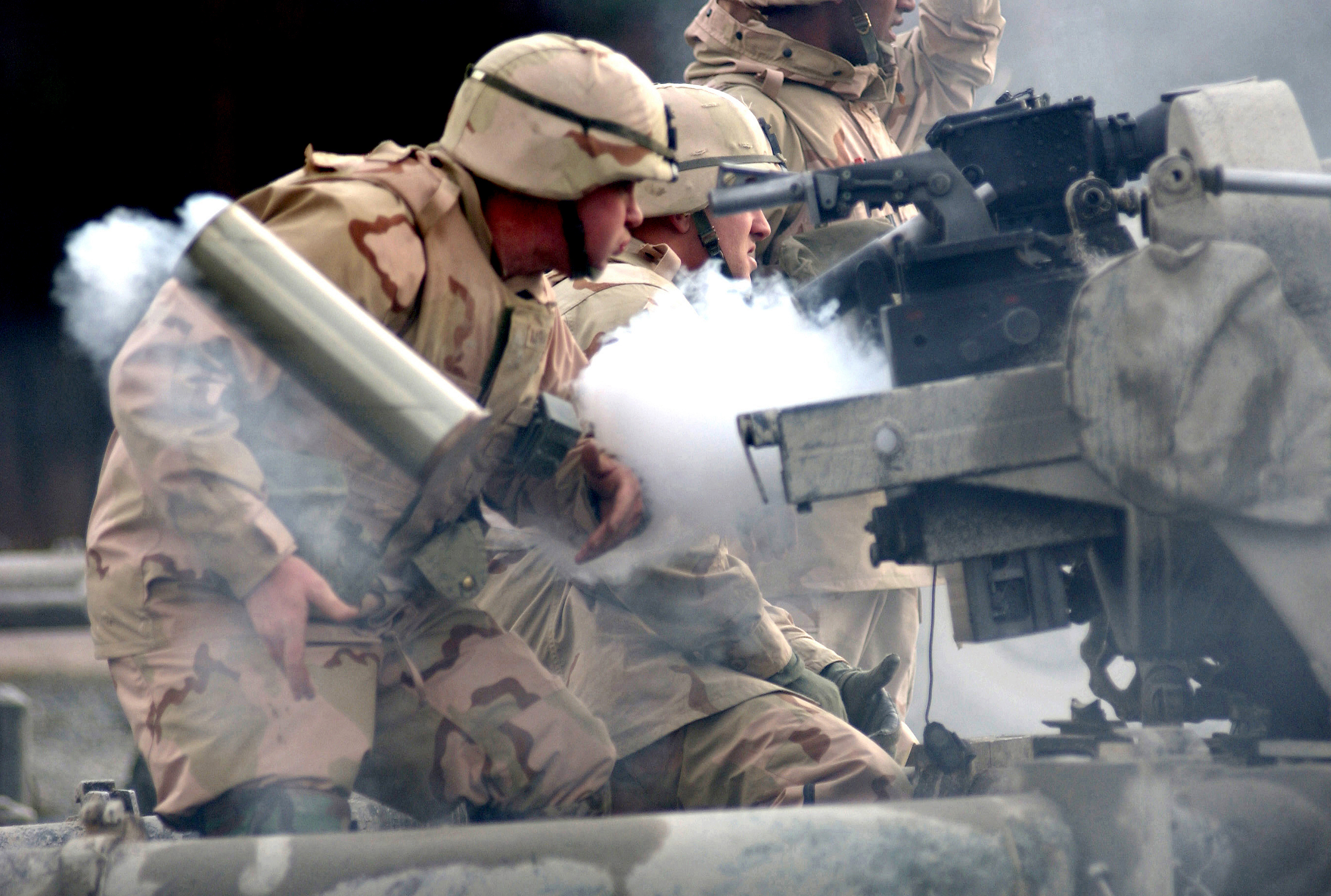 PFC Ben McKandles, D/319 FA, 173d Abn Bde, flips a spent round out of a M119A2, 105-mm howitzer, during training at Grafenwoehr, Germany.